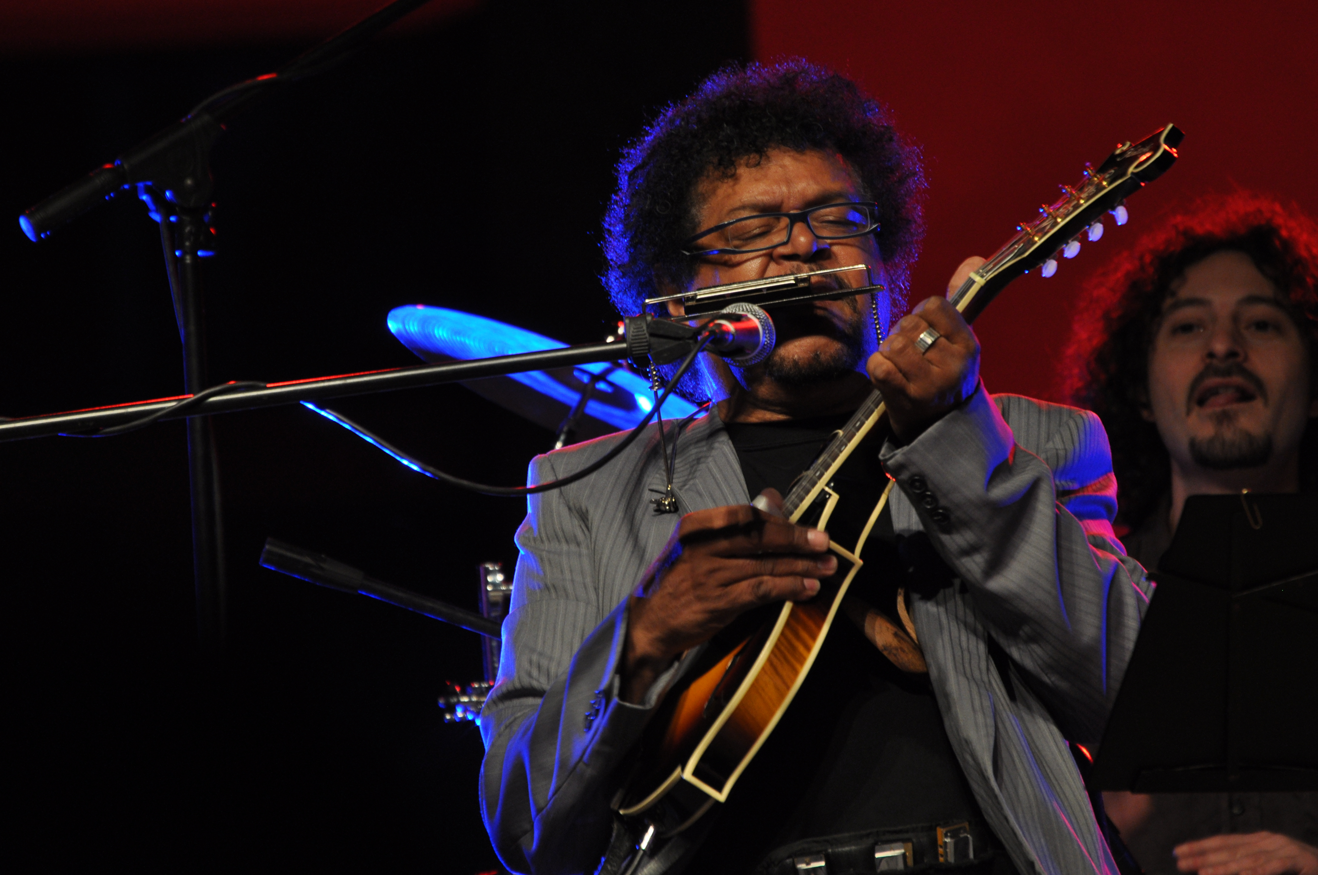 Harrison Kennedy & Folk's Wagon If you don't love the blues, you have a hole in your soul. We're gonna fill that hole.